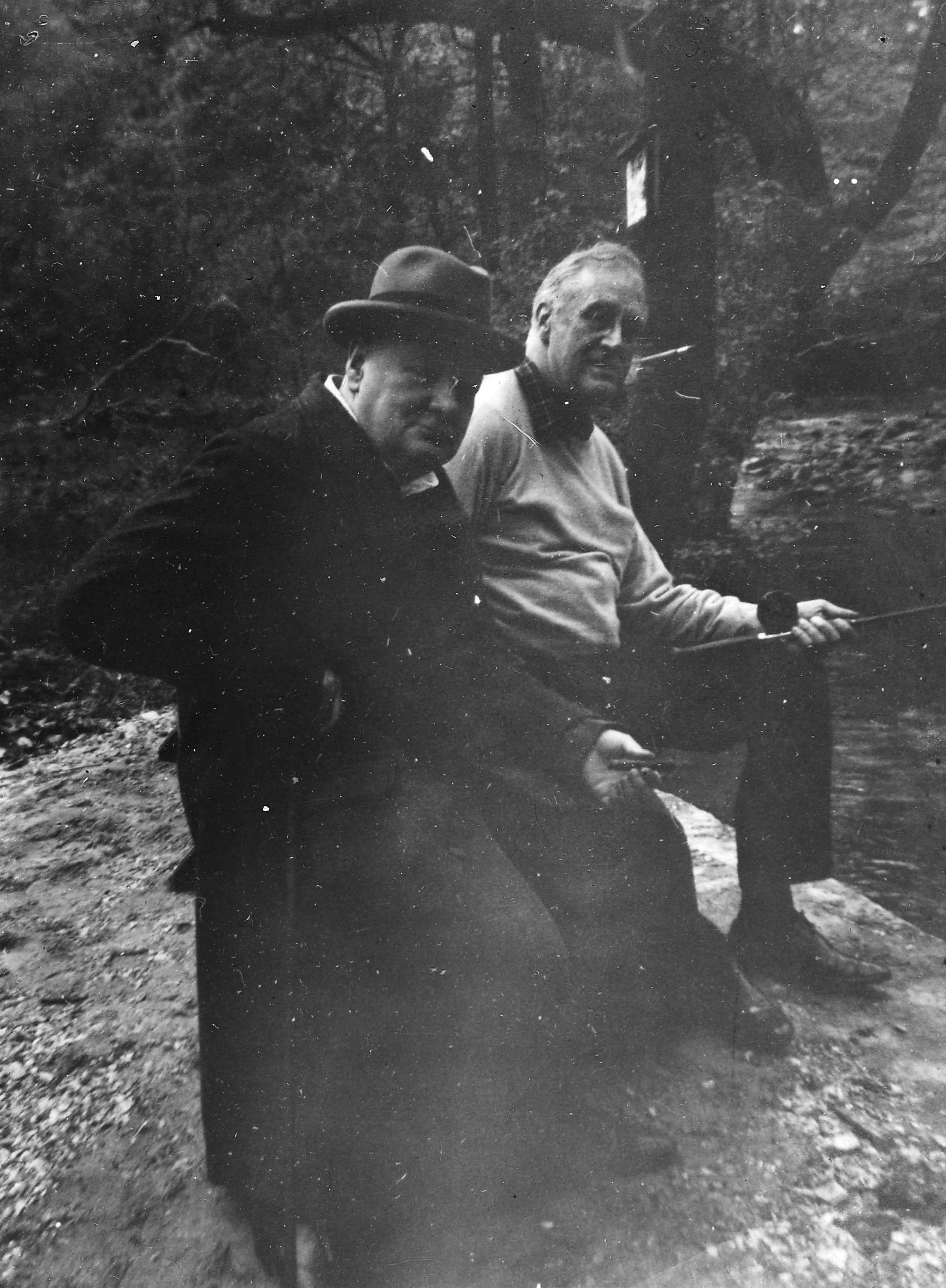 Churchill and FDR fishing at Camp David in 1943